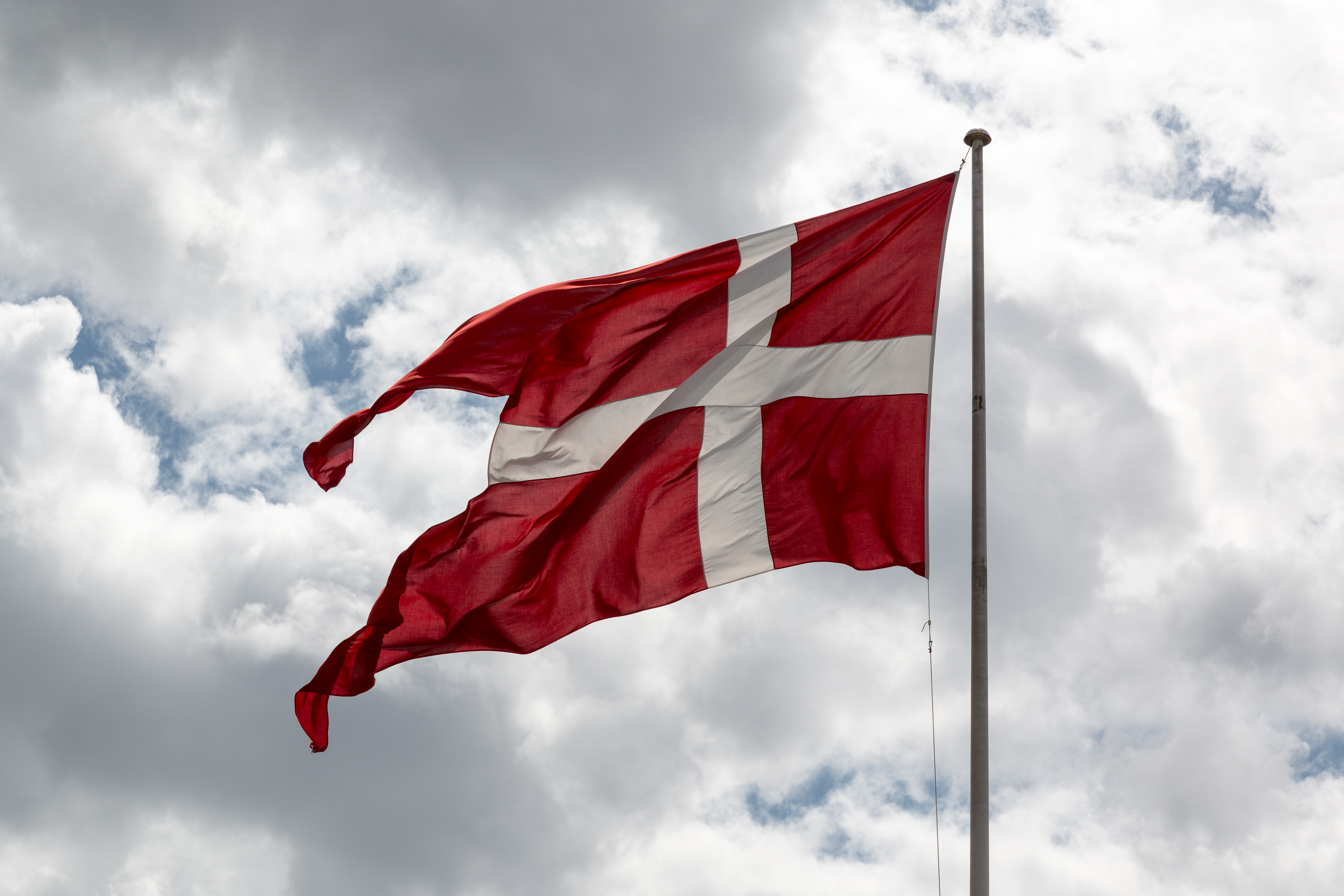 Flag of Denmark in the citadelle, Copenhagen, Denmark